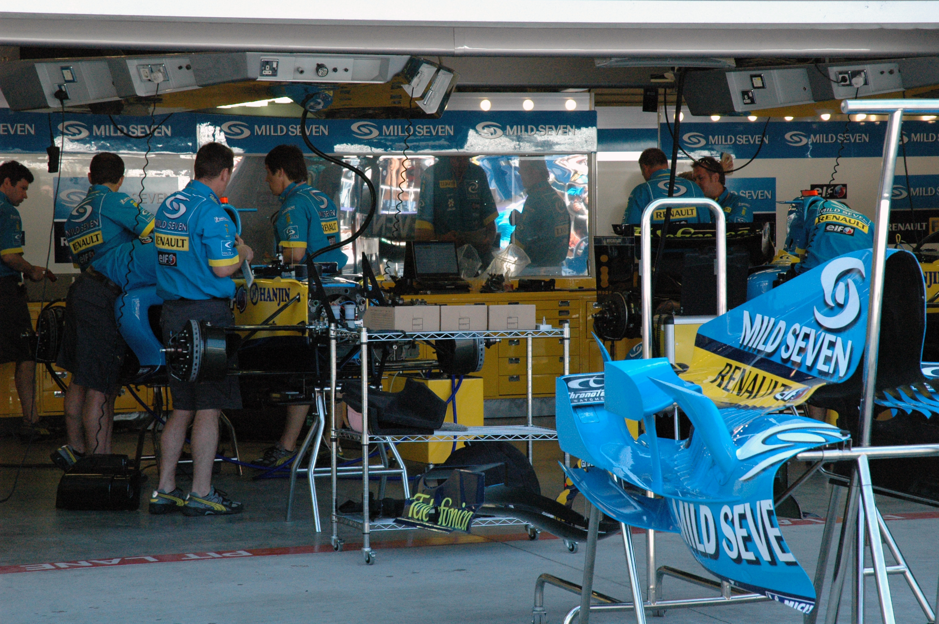 Renault garage at the 2005 United States Grand Prix